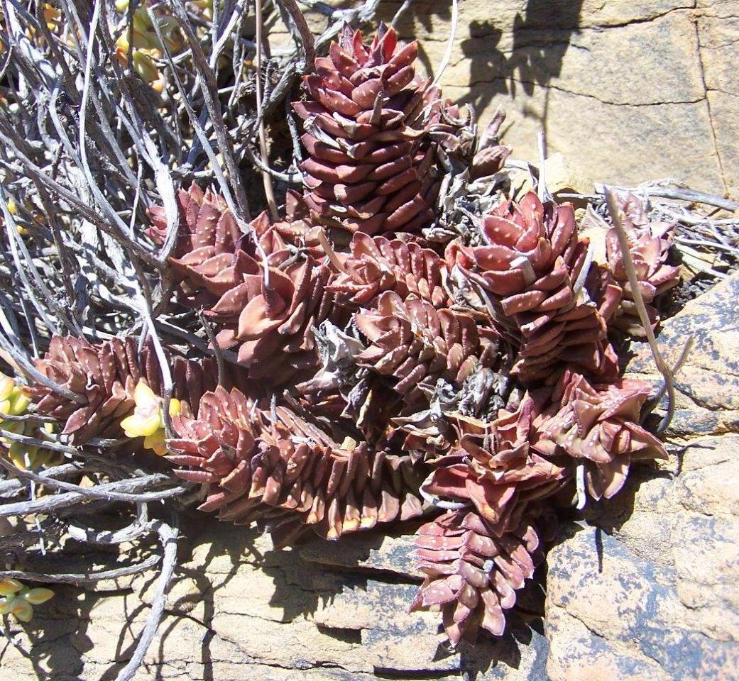 Astroloba bullulata - MBB Tankwa Karoo South Africa